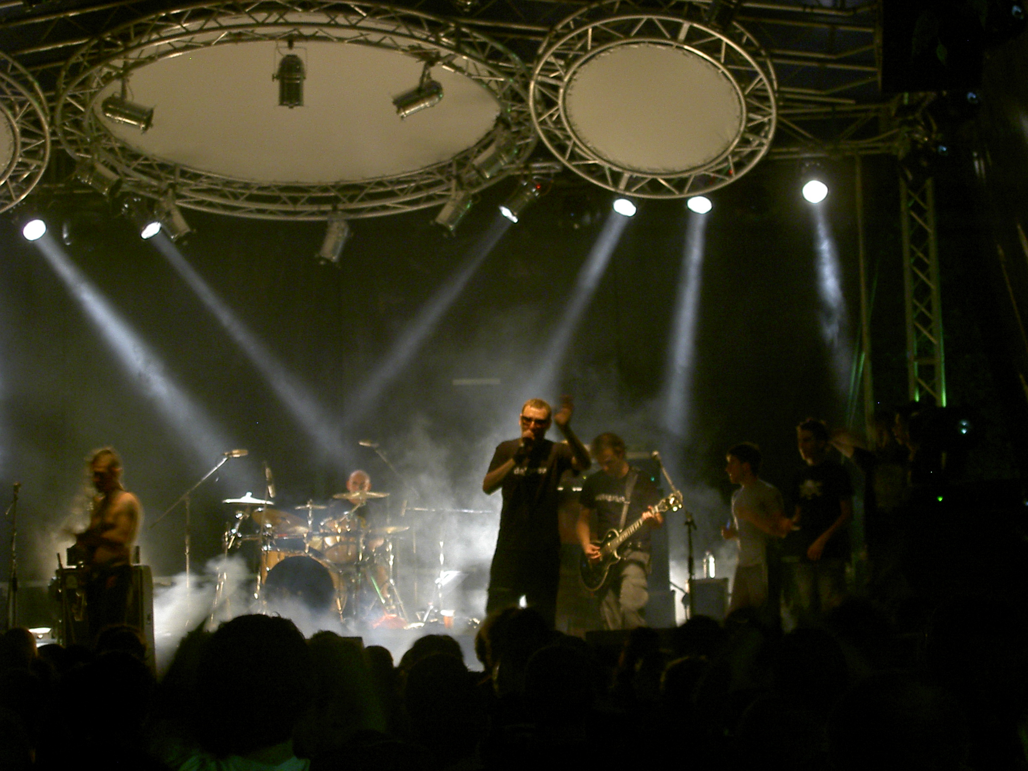 photo from flick